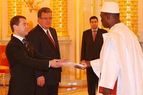 THE KREMLIN, MOSCOW. Presentation ceremony of foreign ambassadors’ letters of credentials. Ambassador of the Republic of Mali Brehima Coulibaly presents his letter of credentials to the President of Russia.